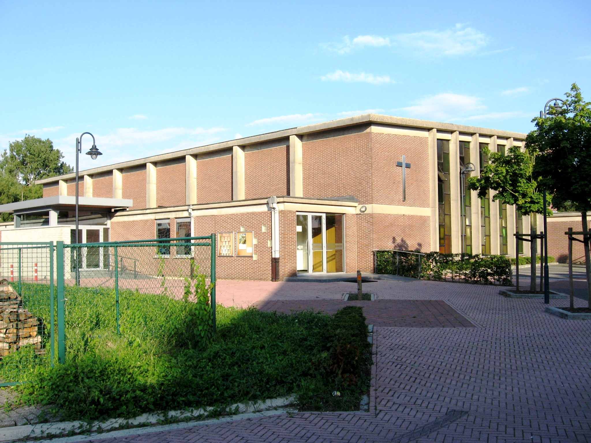 Church of the Assumption of Our Lady in Genk (Oud-Waterschei), Limburg, Belgium